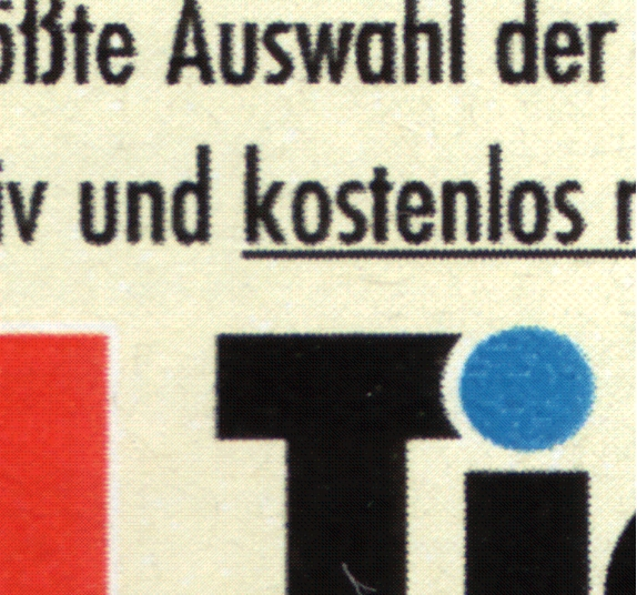 Gravure prints show the traces of their serrated teeth structure